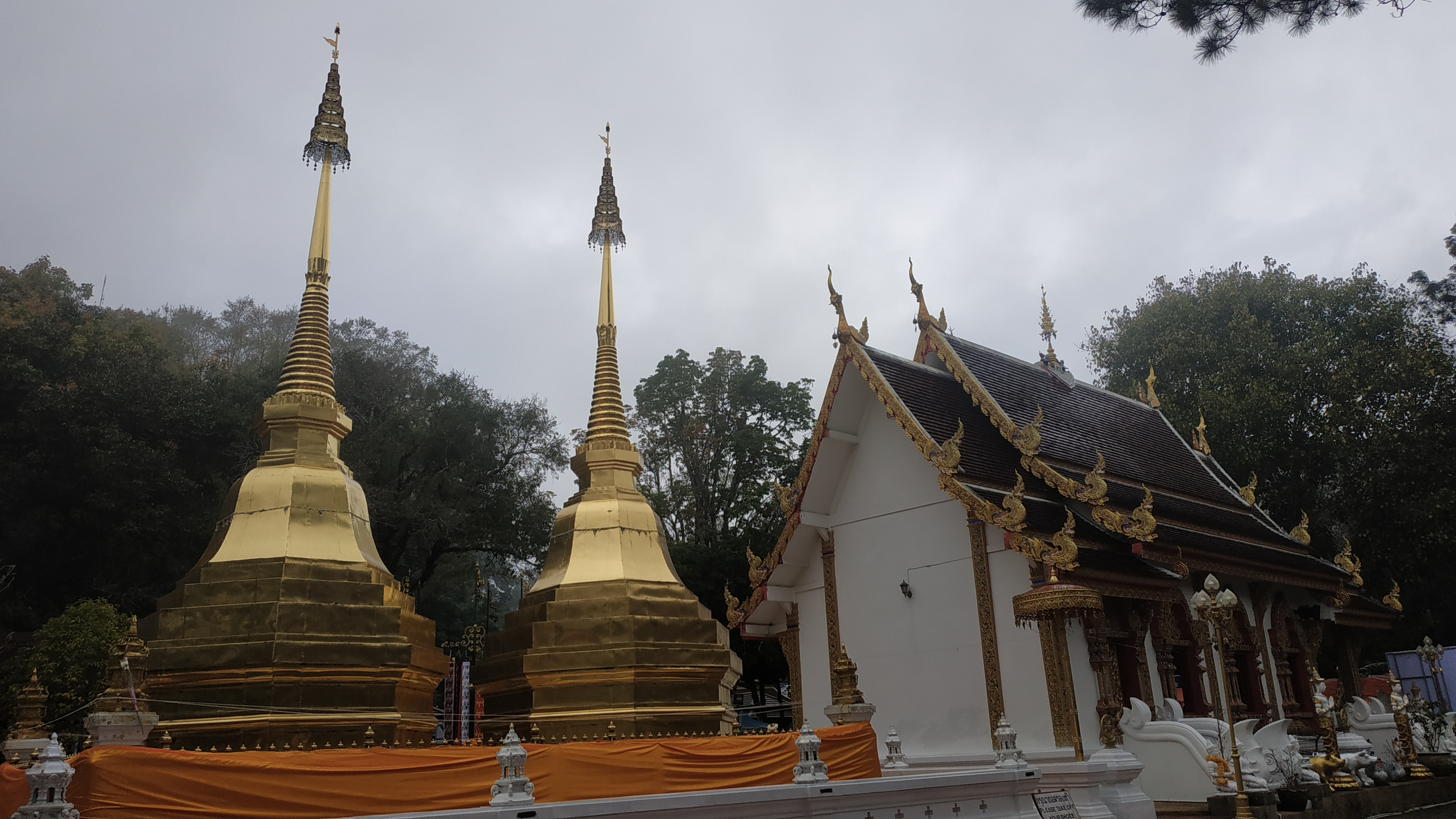 Wat Phra That Doi Tung, Mae Sai District, Chiang Rai Province, Thailand.